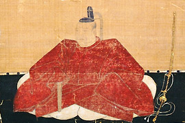 This photographic image was published before December 31st 1956, or photographed before 1946, under the jurisdiction of the Government of Japan. Thus this photographic image is considered to be public domain according to article 23 of old copyright law of Japan (English translation) and article 2 of supplemental provision of copyright law of Japan. To uploader: Please provide an image source.